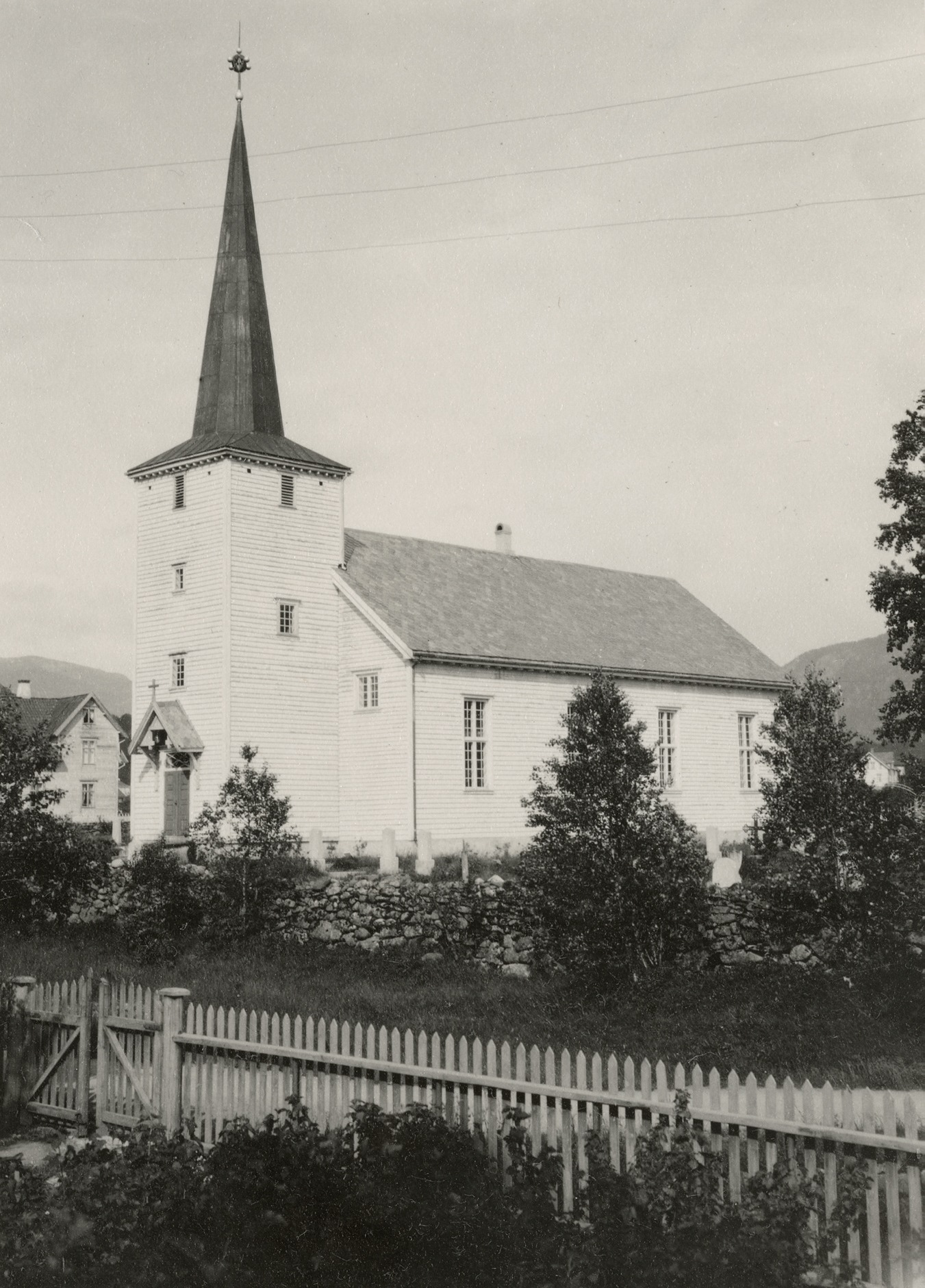 Sauda kirke fotografert i 1950. Ukjent fotograf, fra Riksantikvarens samling på Kulturbilder.no.